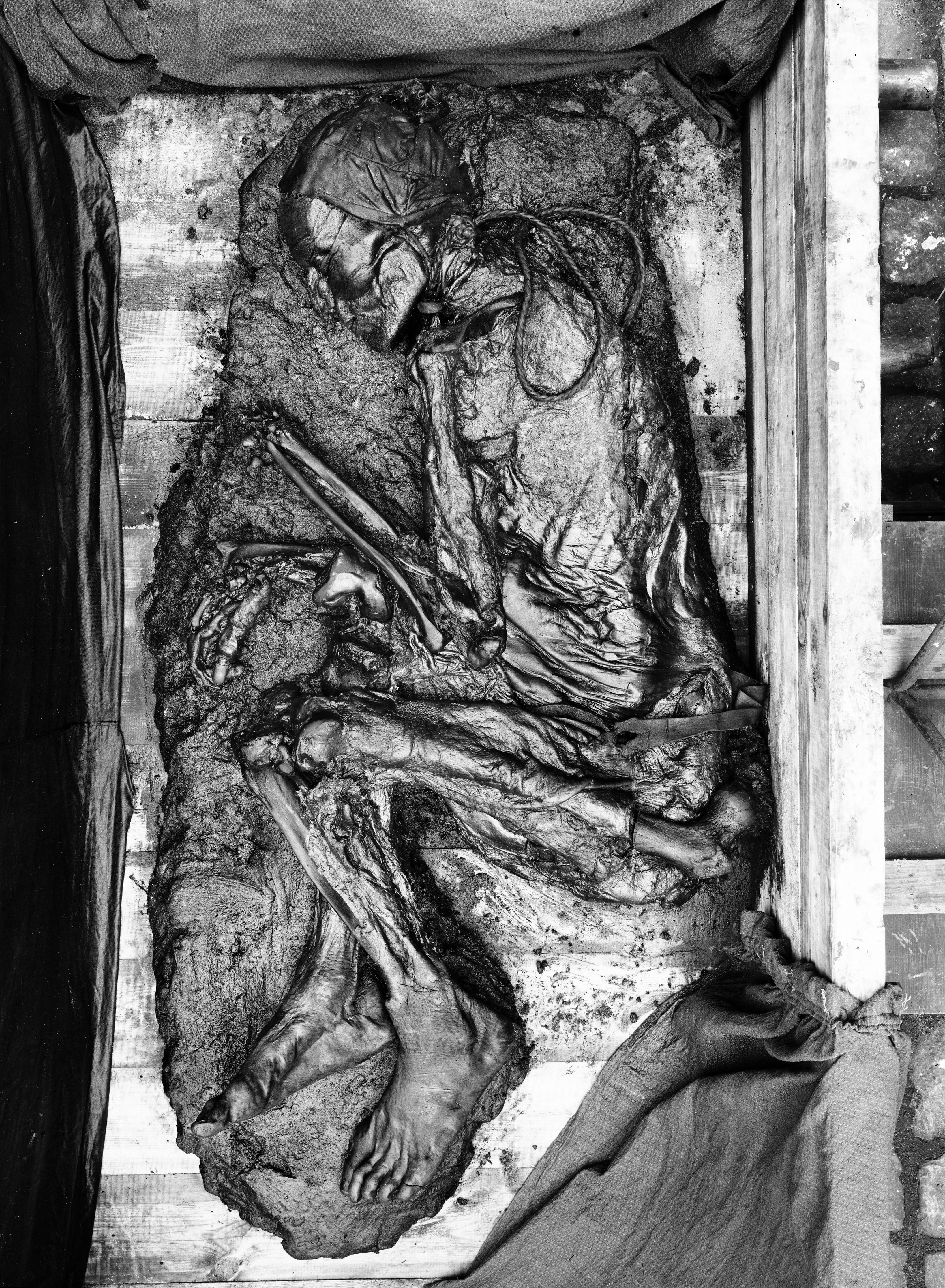 Bog body Tollund Man.